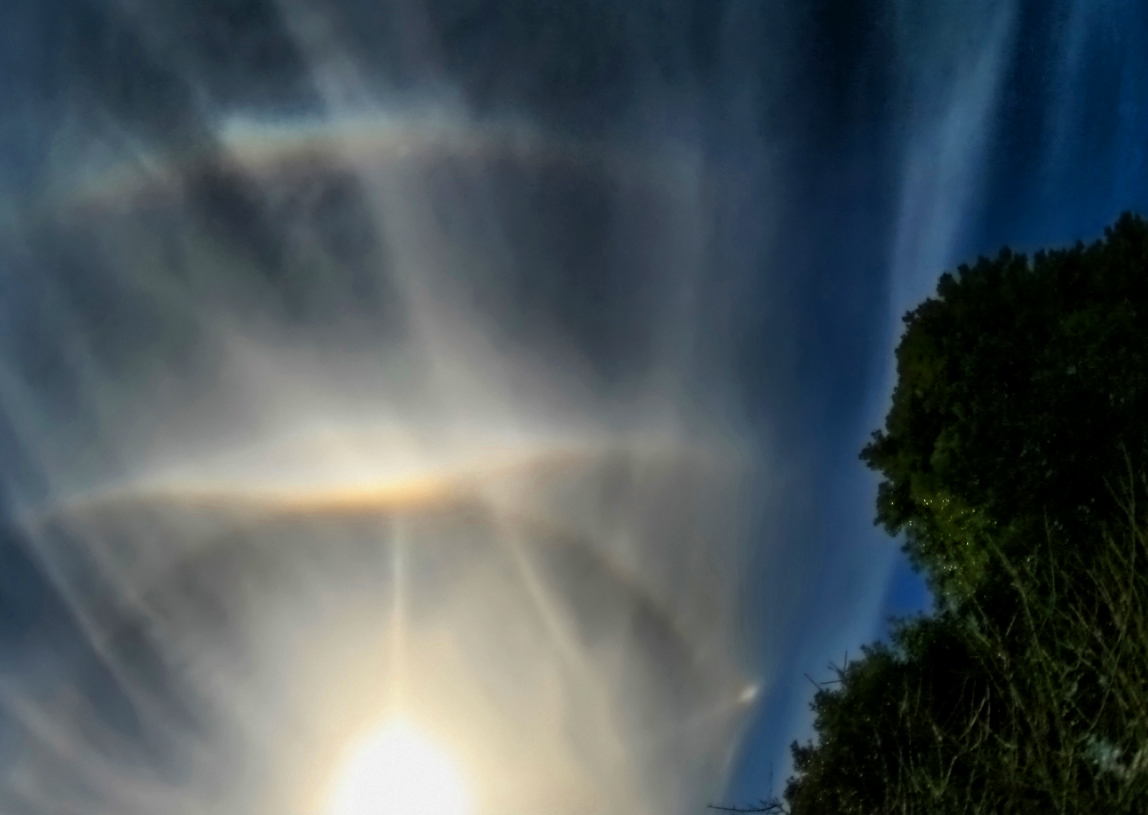 Complex halo display.w:22° halo, w:46° halo or supralateral arc (cannot make a positive ID), Parry arc, UTA, parhelic circle and sundog